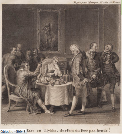 Copper engraving after painting by Eckersberg